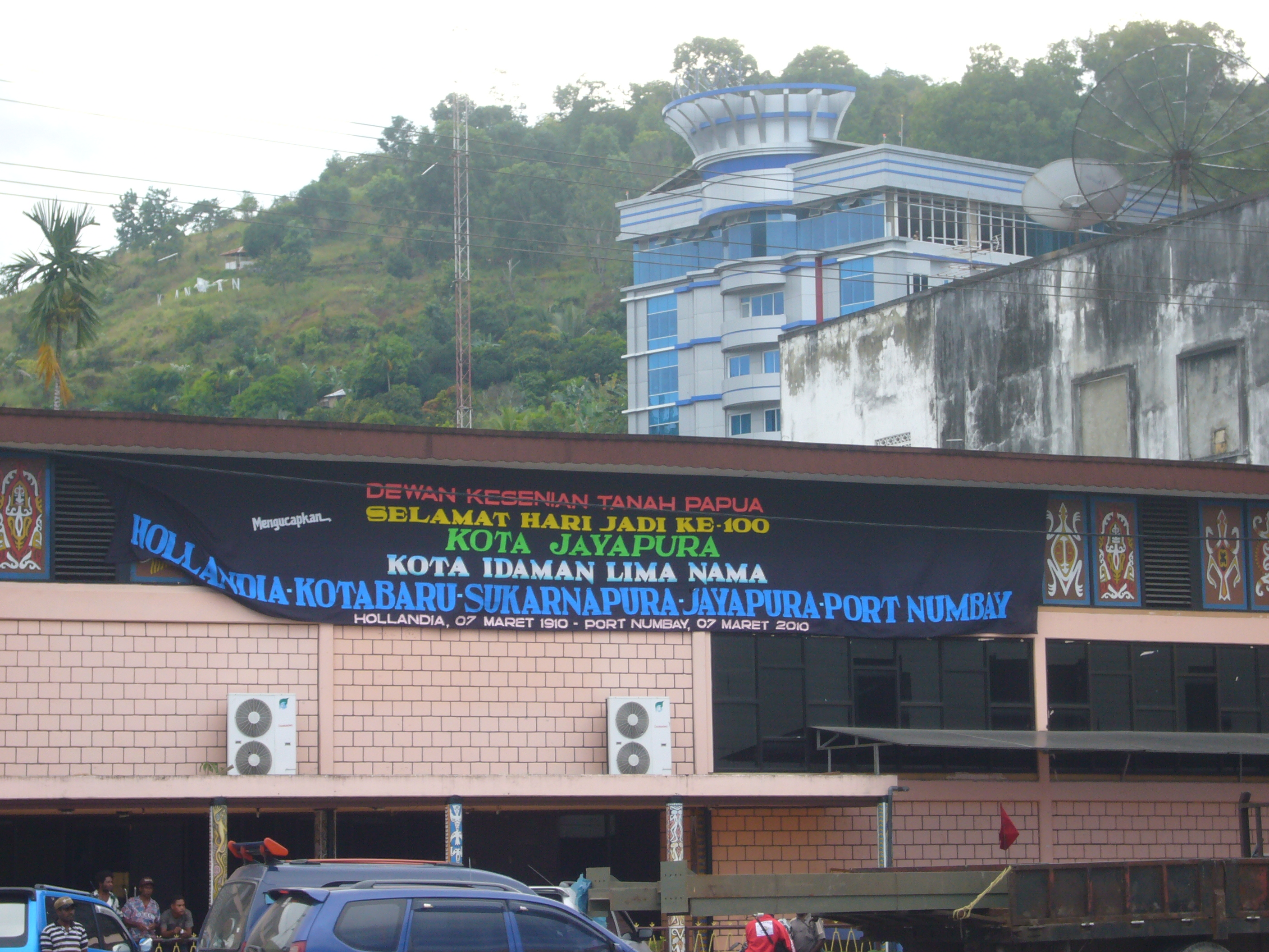 A banner at the centennial celebration of Jayapura (being renamed to Port Numbay) listing the numerous historical names of the city